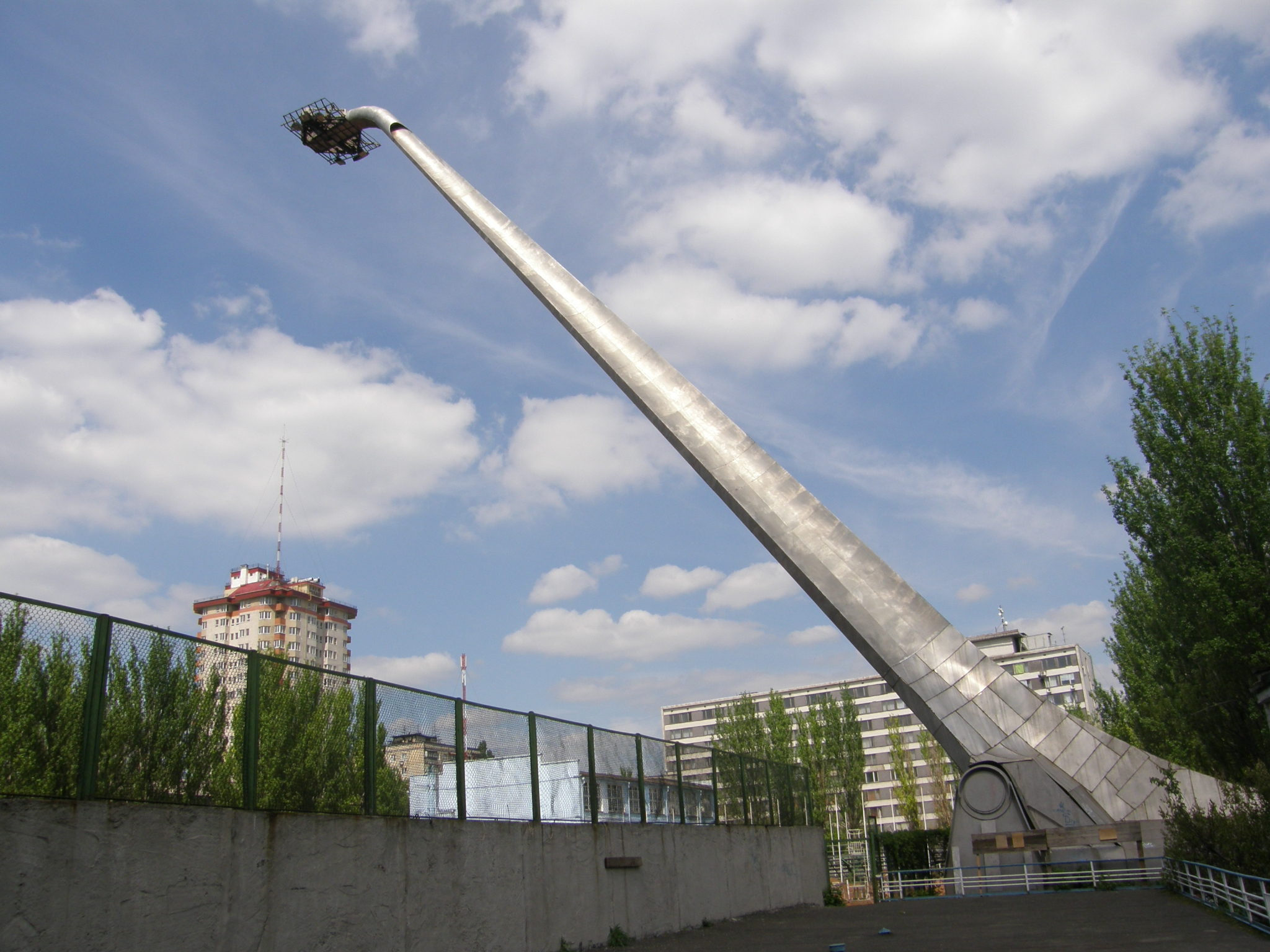 RSC Olimpiyskyi